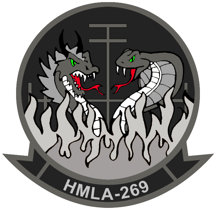 The new patch used by HMLA-269 since 2008.